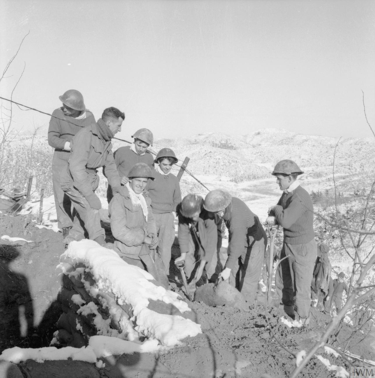 THE KOREAN WAR 1950 - 1953. Company Sergeant Major Harry McDortch (without headgear), "A" Company, 1st Battalion, The King's Liverpool Regiment, pays a routine visit to one of the forward platoons of his company serving at the front in Korea. The men in this photograph are digging in a new bunker, a job which helped to keep them warm in the cold Korean winter.